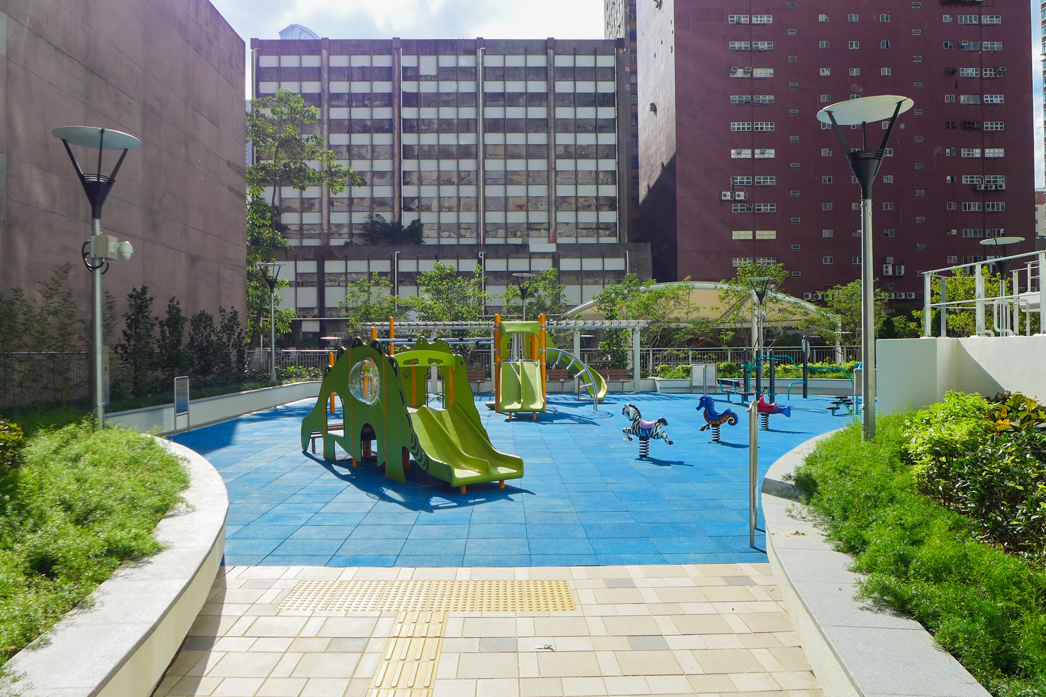 Sheung Chui Court Children Play Area